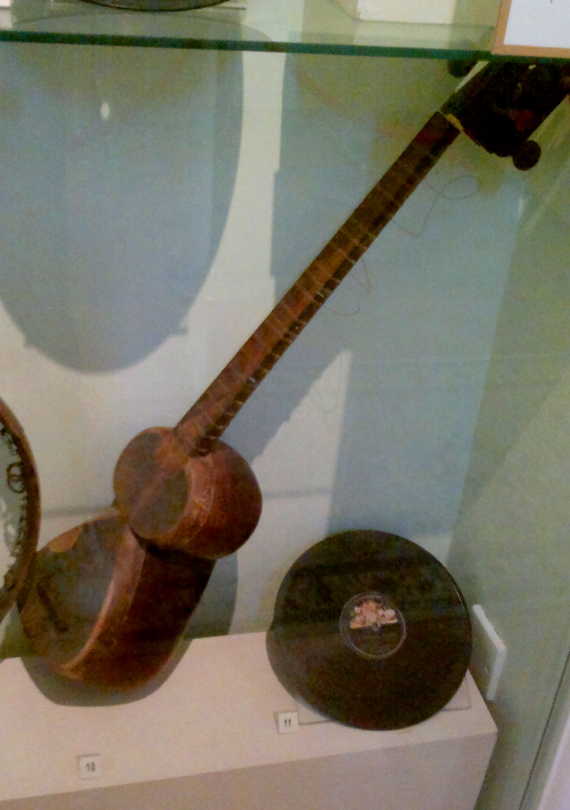 Tar owned by Ahmed Bakikhanov. Museum of History of Azerbaijan.